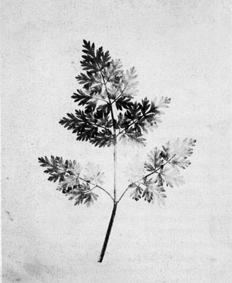 Photogenic drawing.